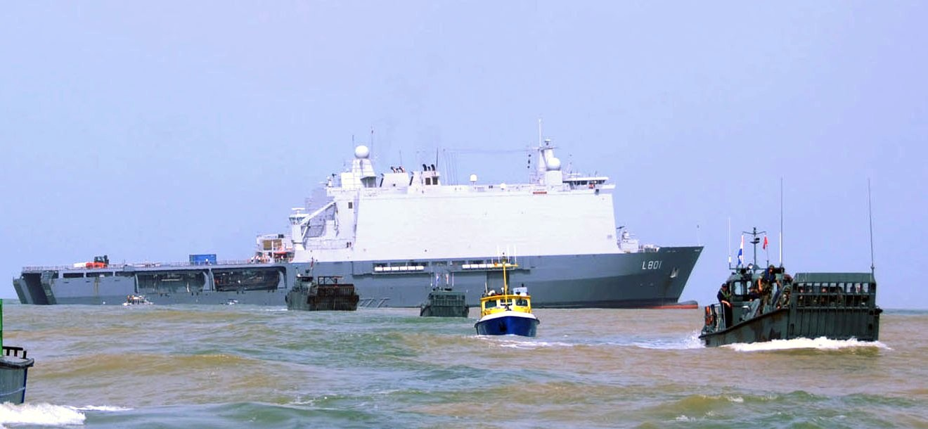 Boats donated by the dutch government, which will be used to survey the length of the Senegal River, were transferred from the Netherlands to Senegal aboard Dutch amphibious ship HNLMS Johan De Witt (L 801) as part of the first European-led Africa Partnership Station (APS) deployment.